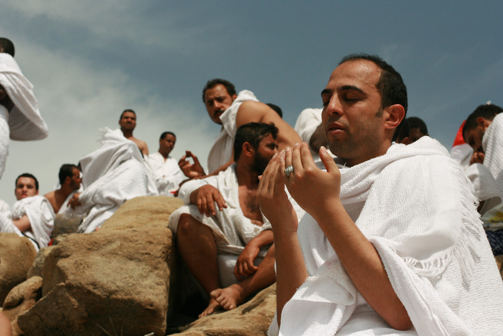 Praying pilgrim